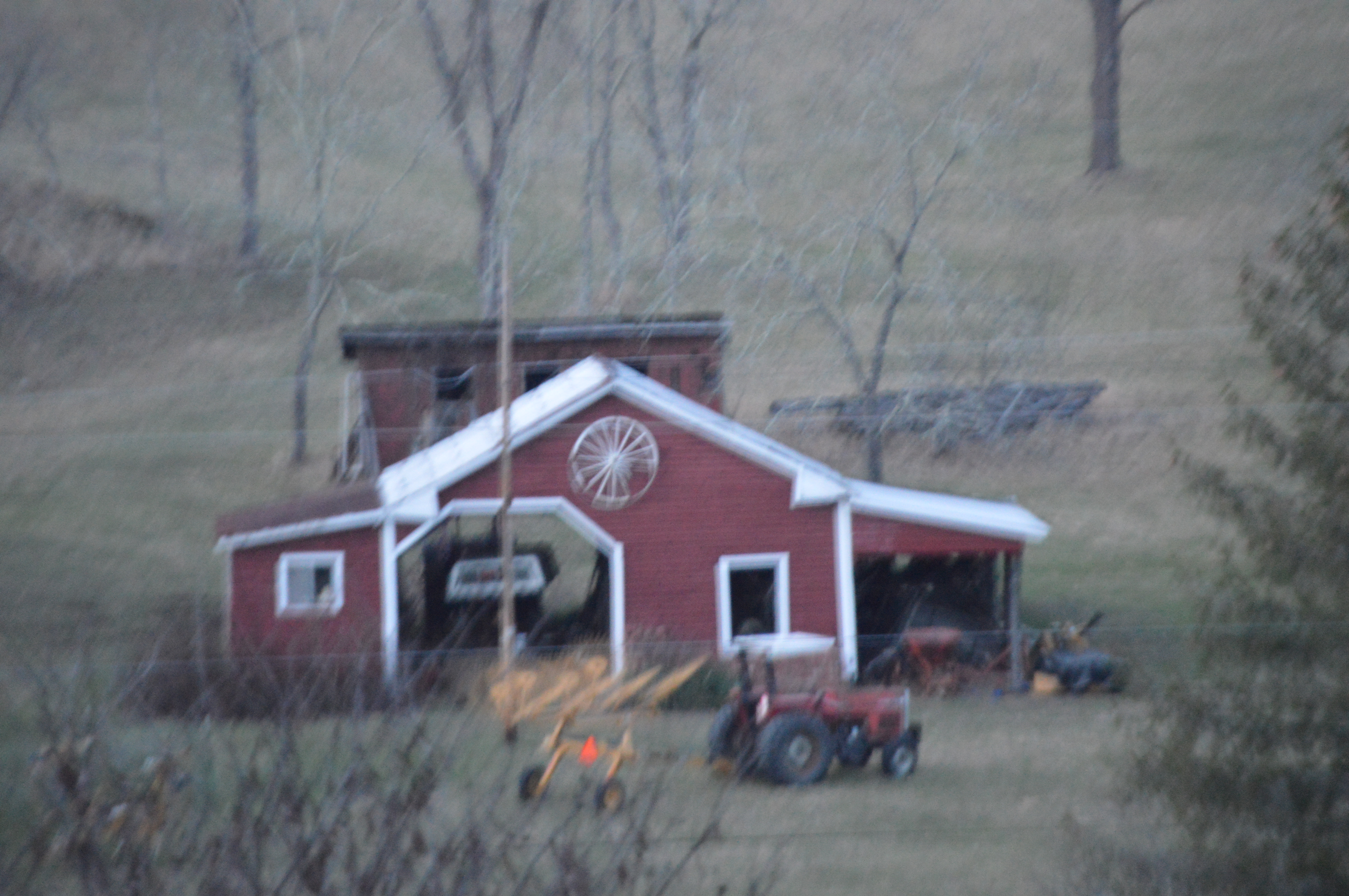 Distant view of one of the buildings at Sunnydale Farm, seen from Mountain Cove Road northeast of Pound in Wise County, Virginia, United States. The farmstead is listed on the National Register of Historic Places.